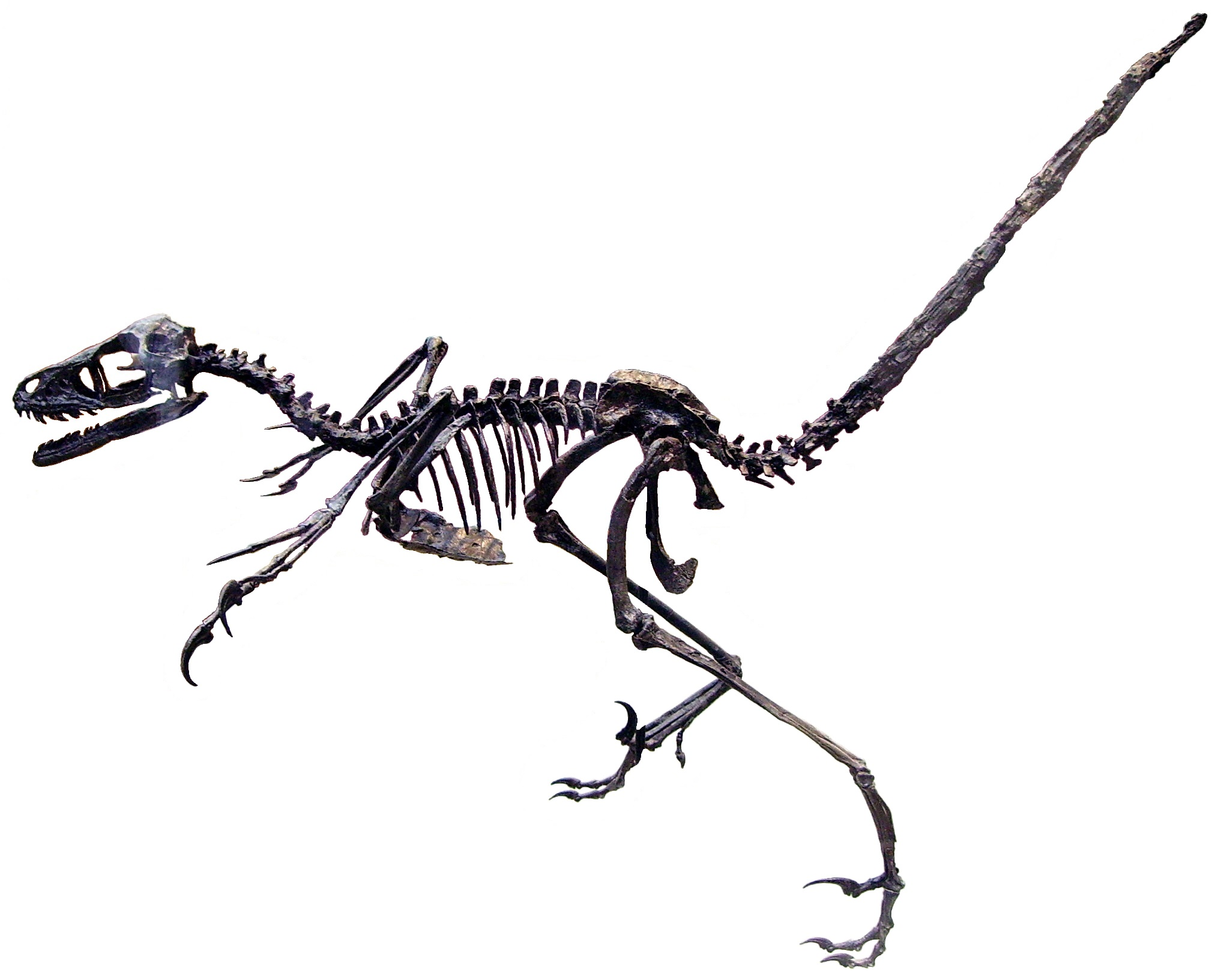 Bambiraptor skeleton in the Oxford University Museum of Natural History.